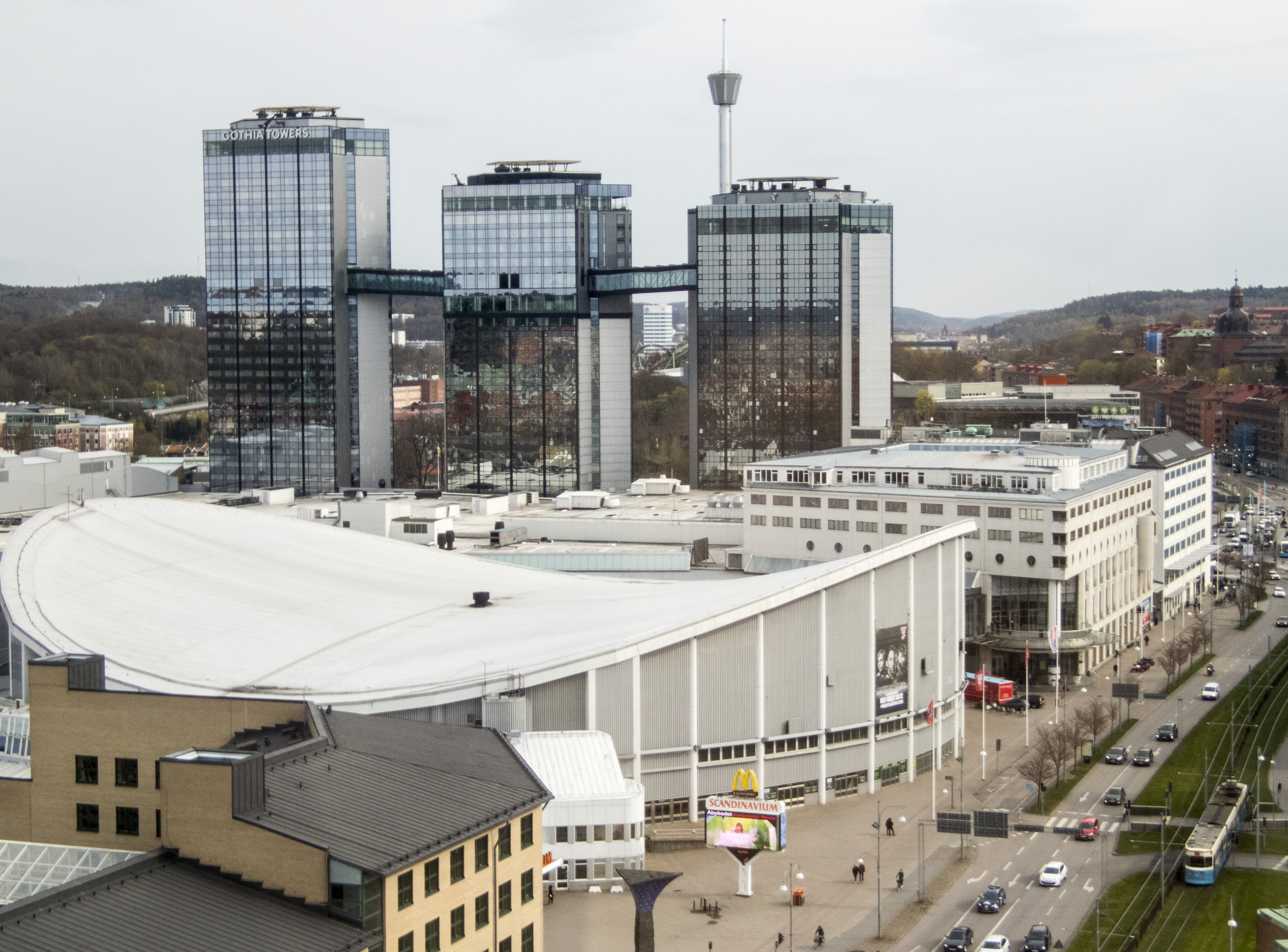 Gothia Towers, Mässan och Scandinavium